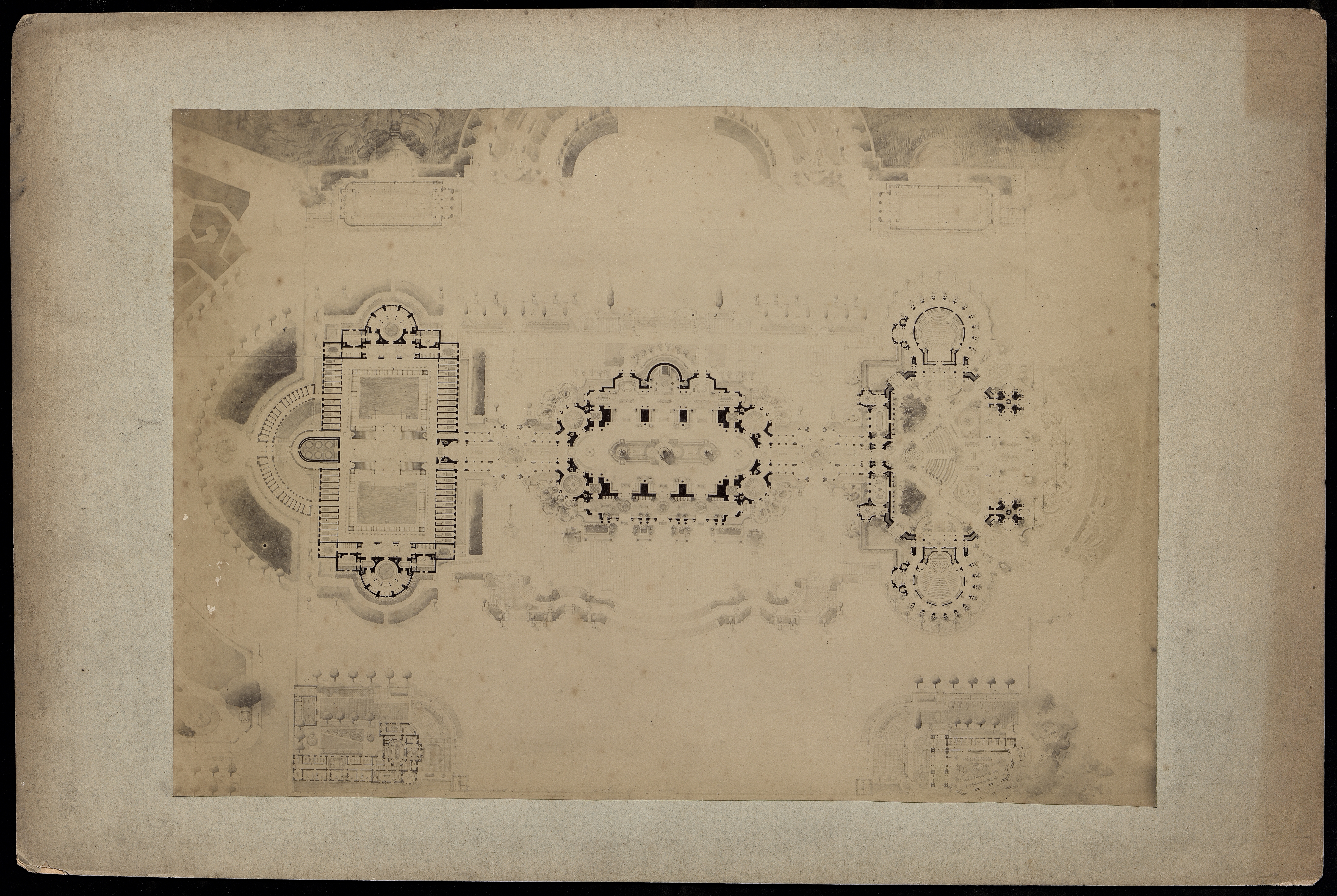 Le sujet, cette année là, est « un établissement d’eaux thermales et casino ». Paul Bigot obtient le 1er Grand Prix de Rome en traitant un ensemble pittoresque, où il combine la cohérence de la composition, fondée sur l’organisation de l’espace et les circulations, à l’indépendance des éléments, traités chacun dans des styles et selon un plan différents. Le présent document offre un plan détaillé des thermes et du casino. Date : 1900 Auteur : Paul Bigot (1870-1942) Photographe : anonyme Descriptif : tirage collé sur carton Dimension du tirage : 41 x 29 cm Dimension du carton : 54 x 36 cm Fichier : UNICAEN_ PB_MRSH_B2_2_2 Localisation : MRSH Conditionnement : Boîte B